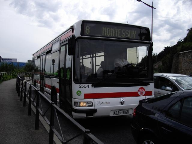 Bus line 8 TCL